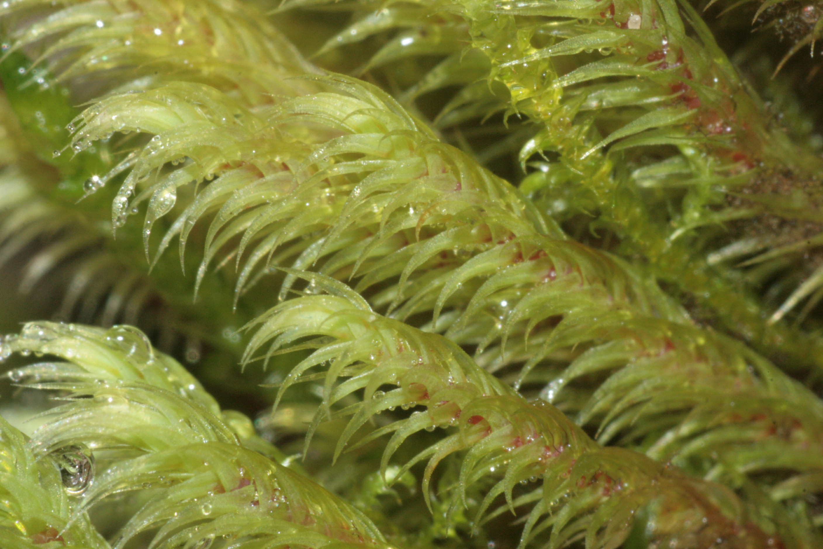 Philonotis calcarea